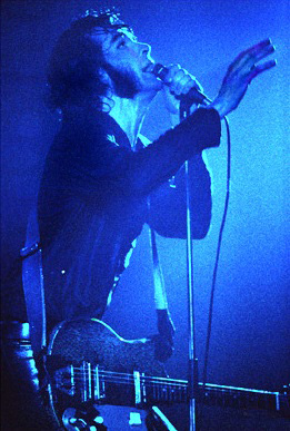 Jon Spencer